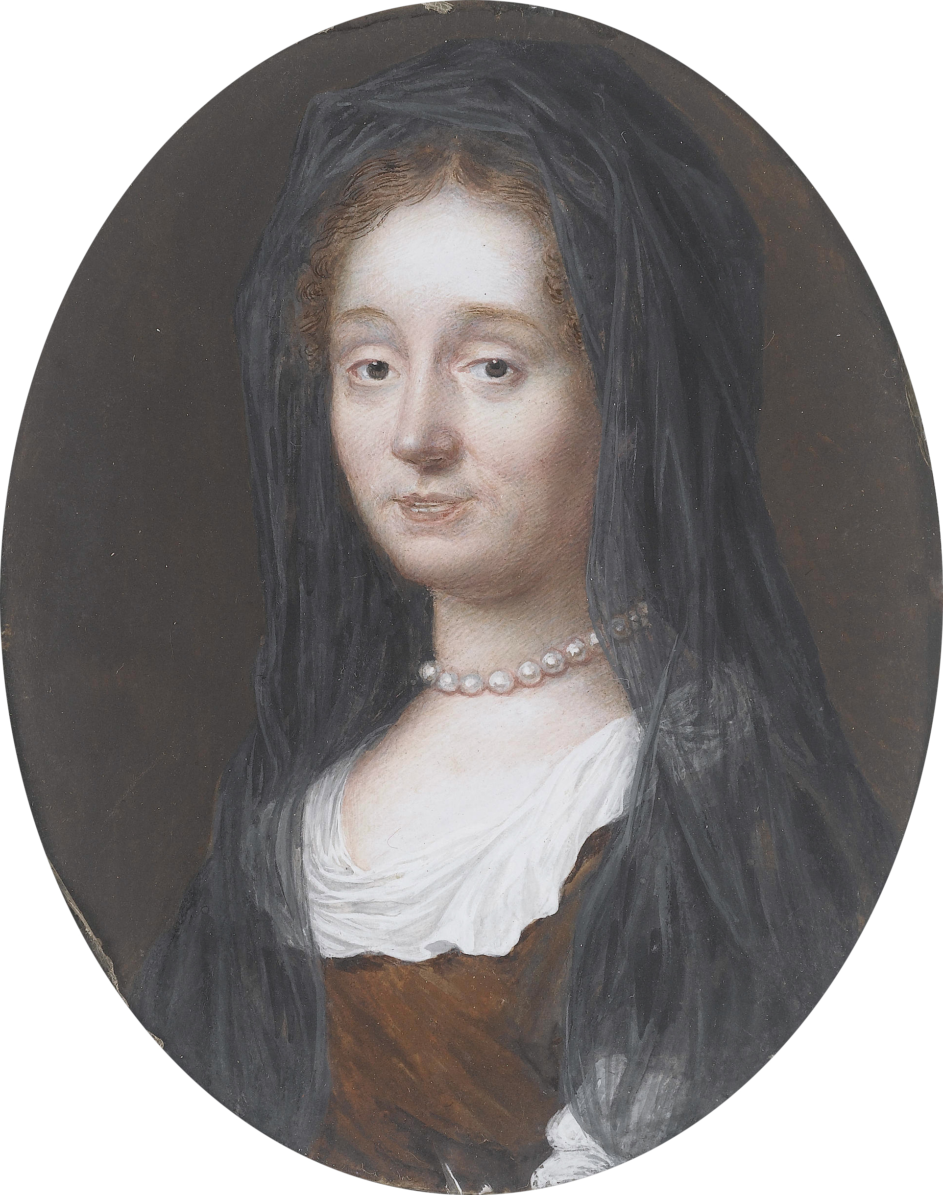 Mary Eyre née Bigoe watercolour on vellum handwritten label Mrs Jane [sic] Eyre wife of / John Eyre of Eyrecourt / whose daughter Mary / married George Evans father / of George 1st Lord Carbery / aged '65_in 1689 / W:G / pinxit. 85mm high